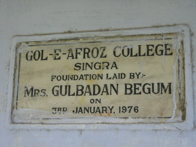 Marble plaque commemorating the construction of the first college of Singra on the Singranatore estate by the head of the family in the 1970s